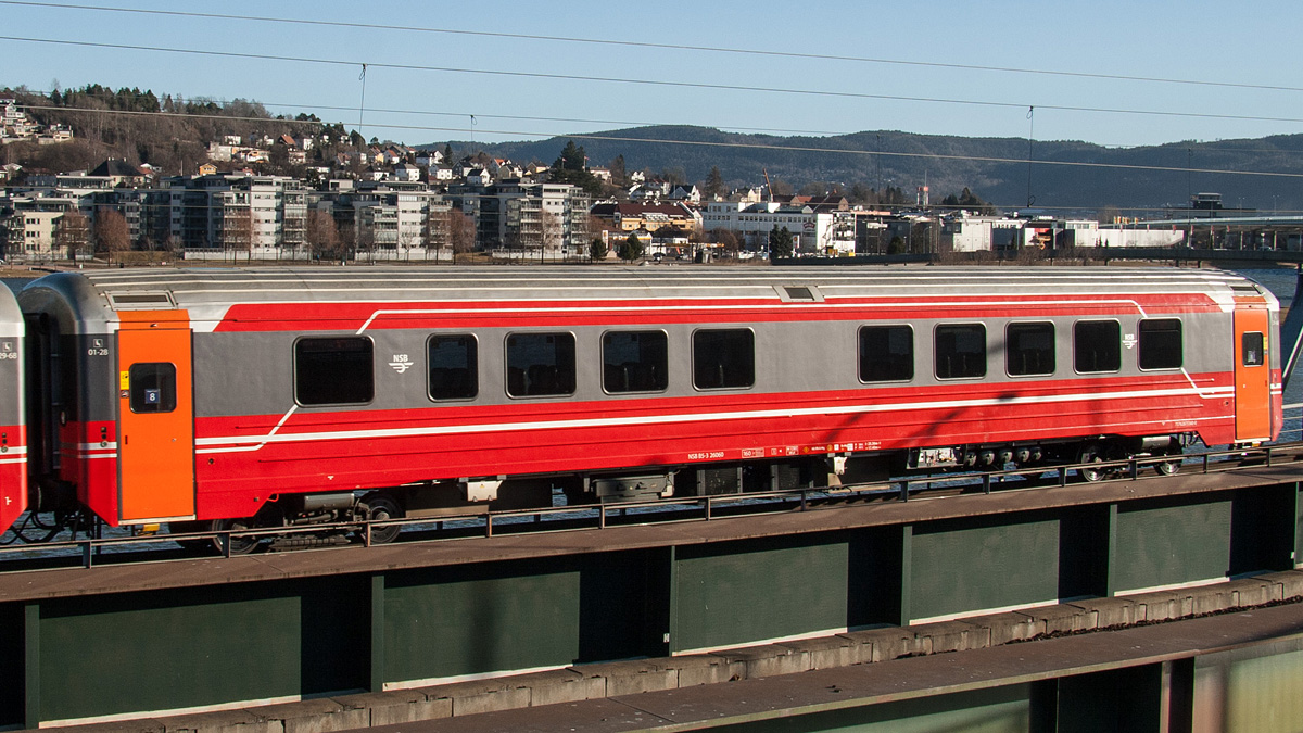 NSB (Norske tog) B5-3 26060 in Drammen.